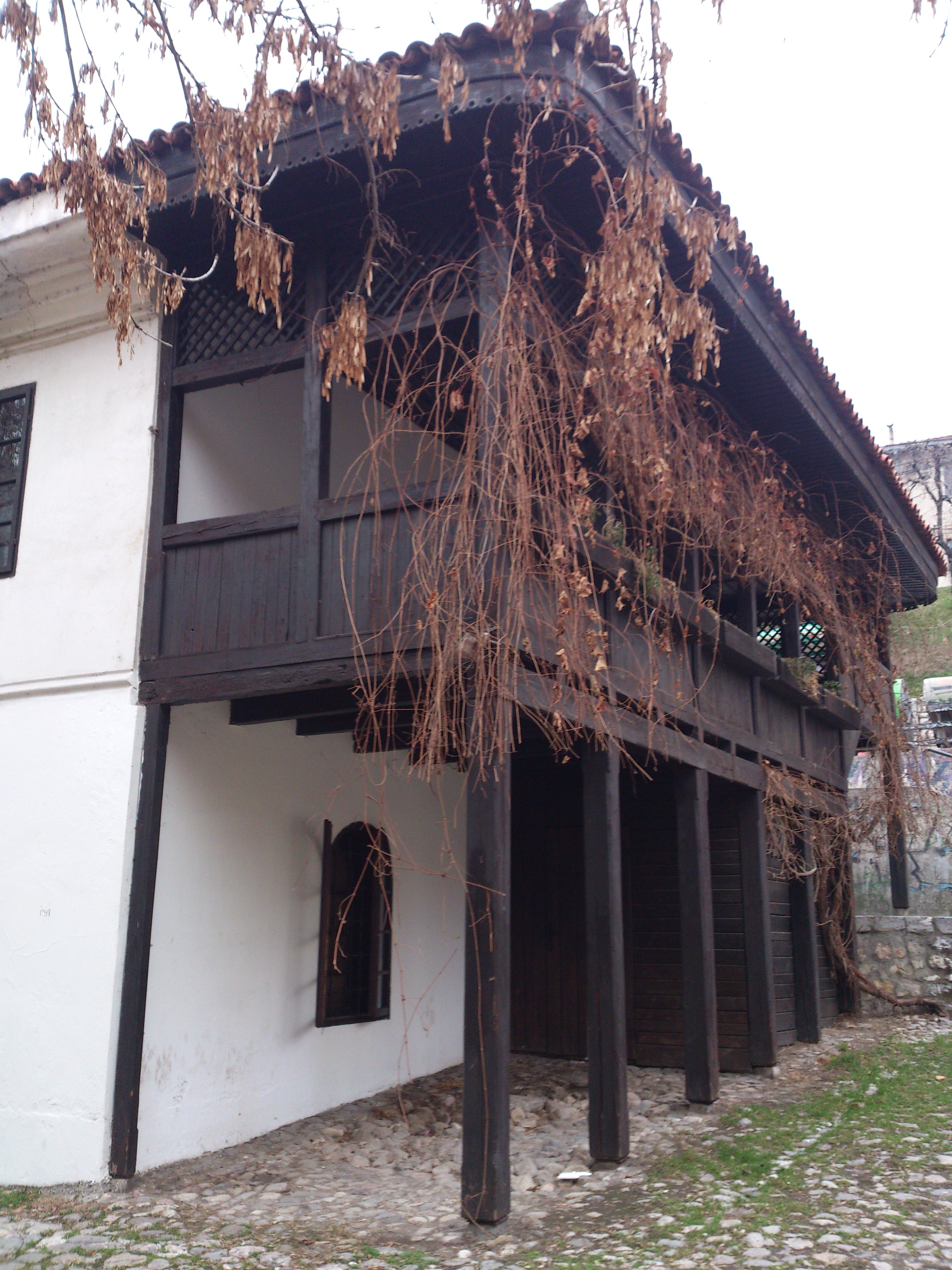 Jokanovića kuća (The house of Jokanović's), is one of the oldest buildings in Užice, a city in western Serbia. Jokanovića kuća was the property of one of the richest merchant families of Uzice in the second half of 19th century - the Jokanovic family. It is also known under the name "peccara" (The Jokanovics family traded, besides other things, with wine and brandy and owned a couple of inns in Užice).